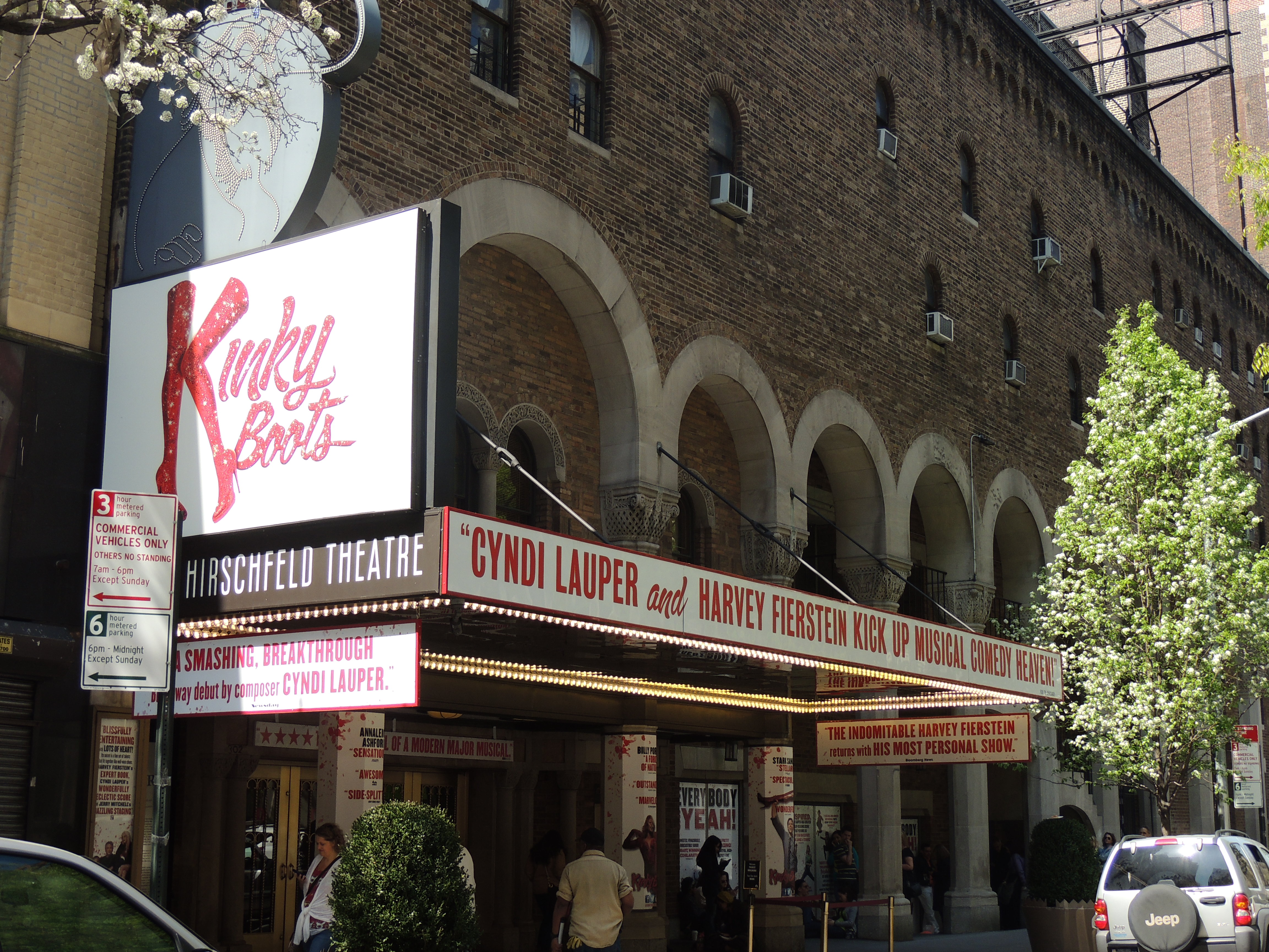 The Al Hirschfield Theatre adorned for Kinky Boots